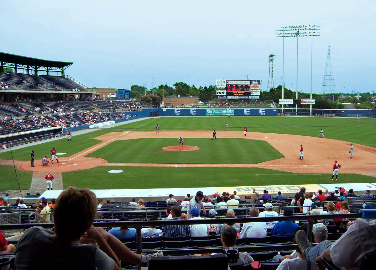 11:11, 16 July 2006 . . Joenad . . 1200×900 (330,393 bytes) (taken by myself Joenad 11:11, 16 July 2006 (UTC))